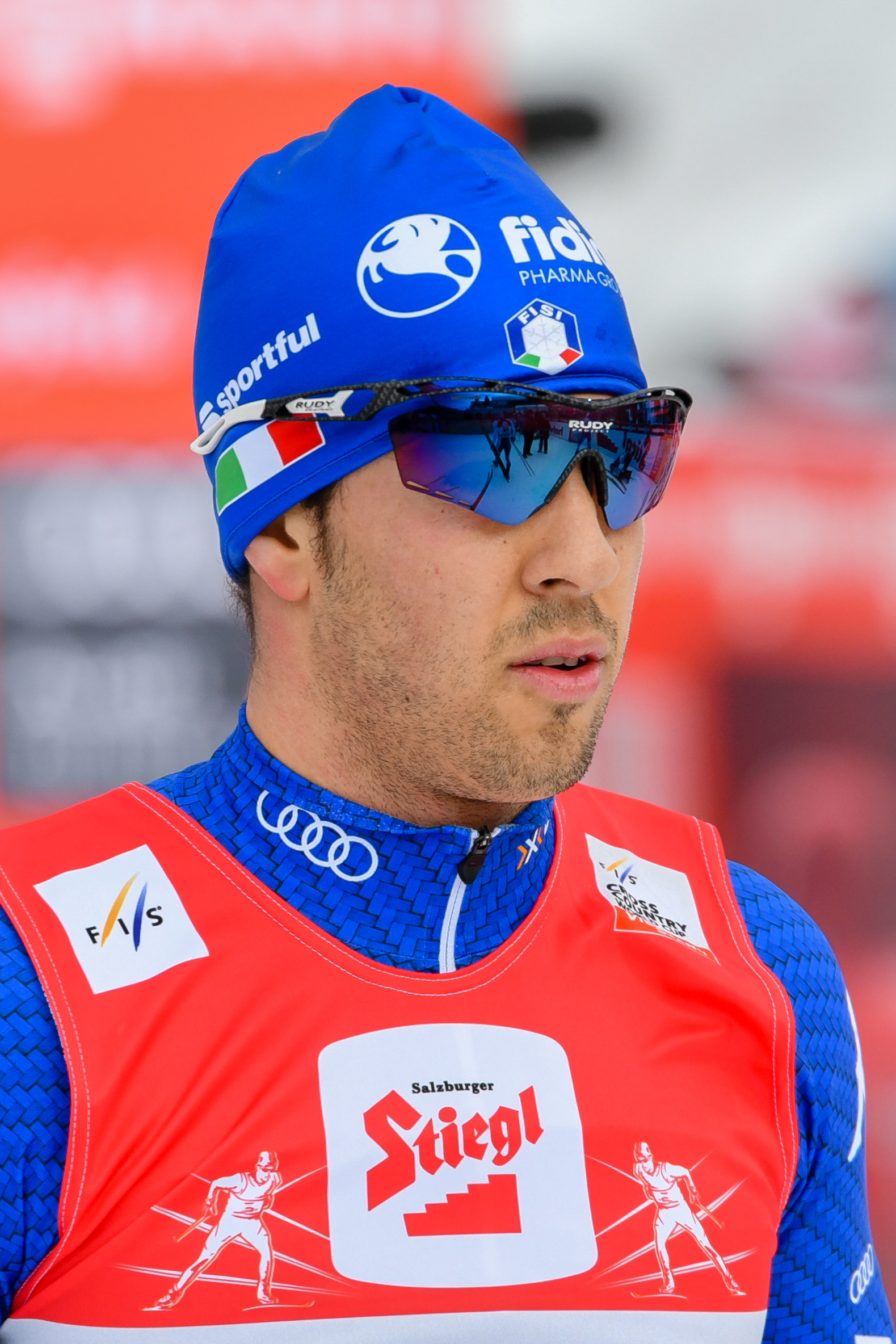 Seefeld-Triple 2018, third day January 28th. Picture shows PELLEGRINO Federico (ITA).